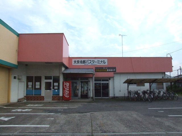 Daiko Hokubu Bus Terminal, formerly Bungo-Takada Station on Oita Kotsu Usa-Sangu Line, in Bungotakada, Oita, Japan